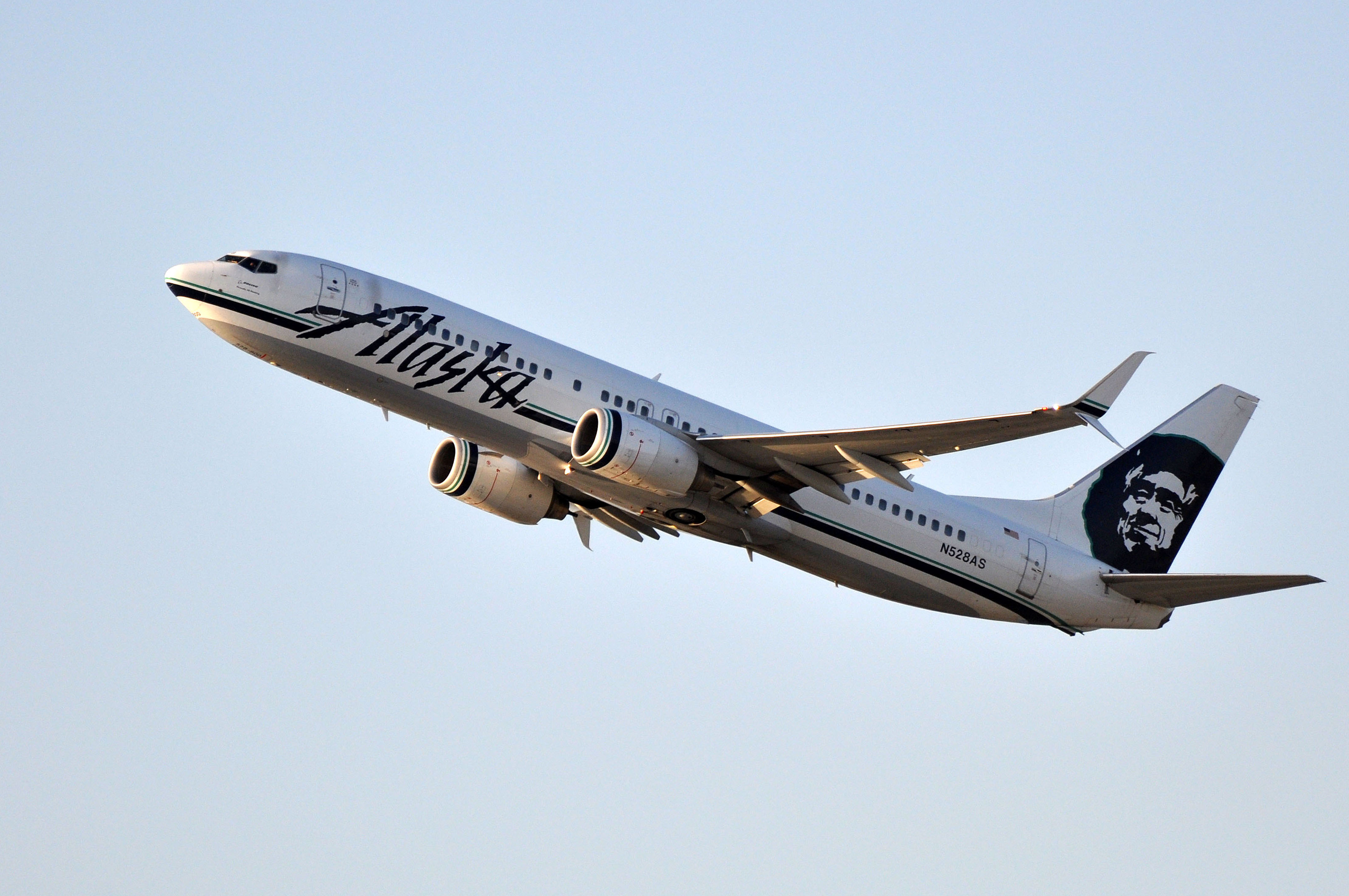 Alaska Airlines Boeing 737-800 taking off from LAX